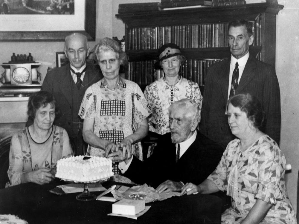 Glassey family, ca. 1926 Members of the Glassey familiy celebrating a birthday. Sitting from the left: Susannah Glassey, Thomas Glassey and Agnes Glassey. Standing from the left: E. W. H. Fowles, Margaret Glassey, Mrs Fowles and Mr Walker from the Aberdare Coal Mines, Ipswich.